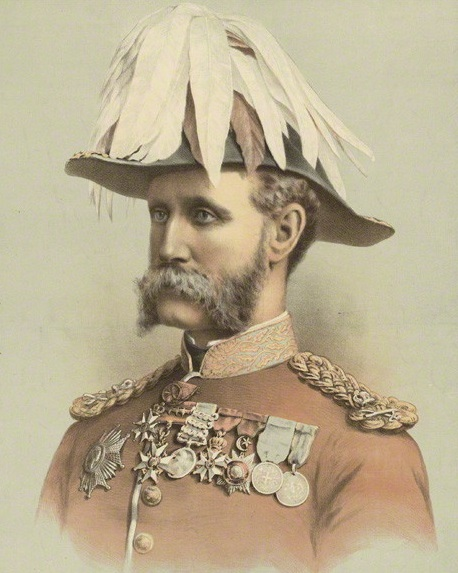 Chromolithograph of Sir George Harry Smith Willis